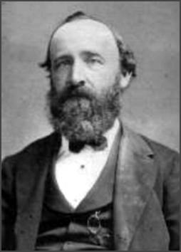 photo of John Wallace Fuller (1827-1891)